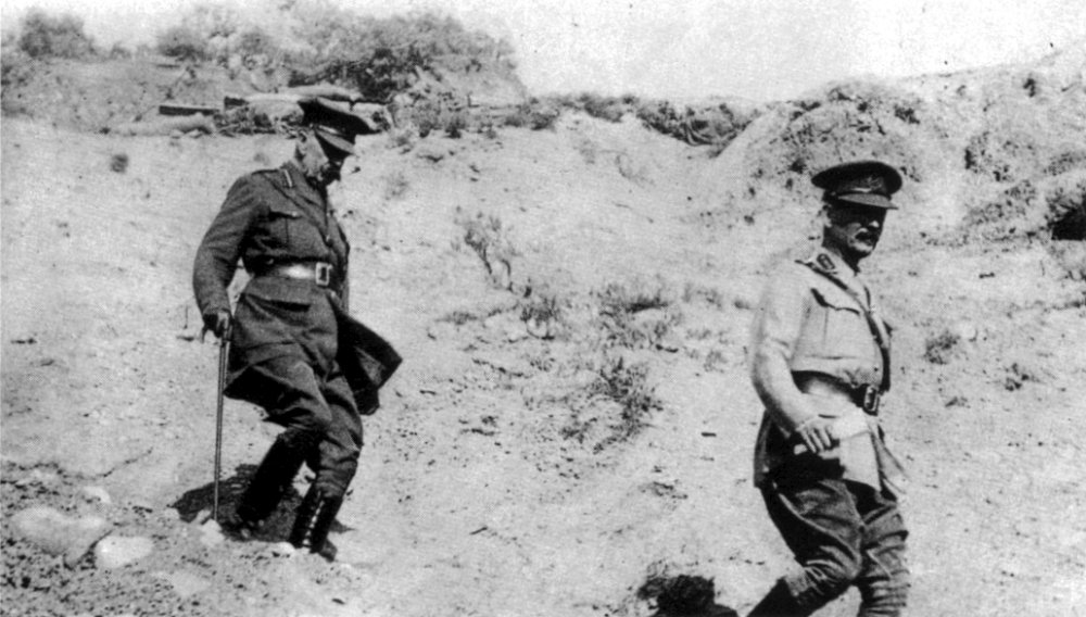 Field Marshal Lord Kitchener (left) and Lieutenant-General William Birdwood at Anzac, 15 November 1915, during the Battle of Gallipoli.